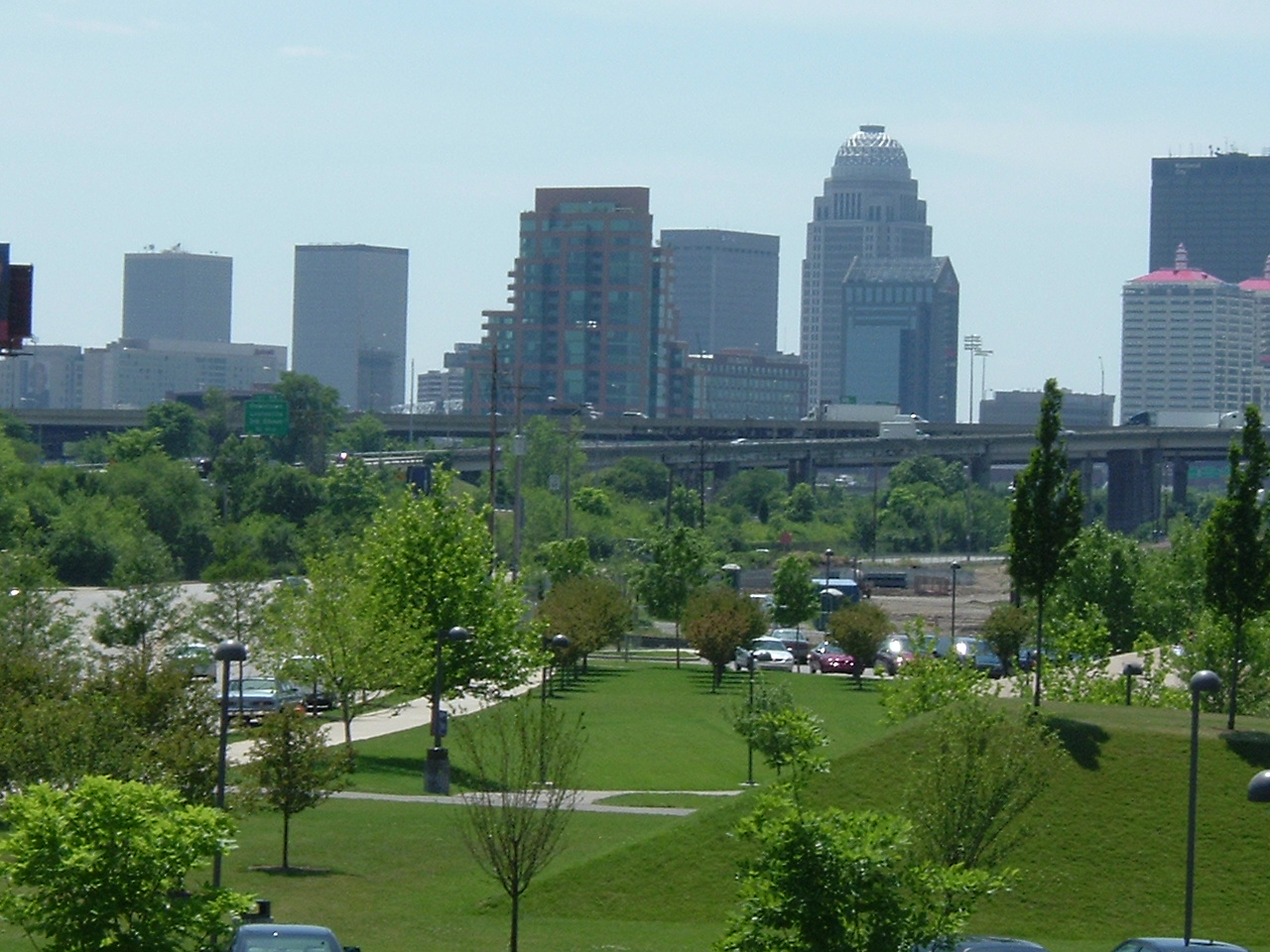 Waterfront Park Phase II LOUKY